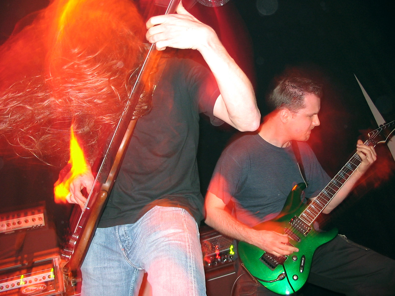 Two members of the grindcore band "Japanische Kampfhörspiele" at a concert in Wunstorf, Germany on September 28th 2004